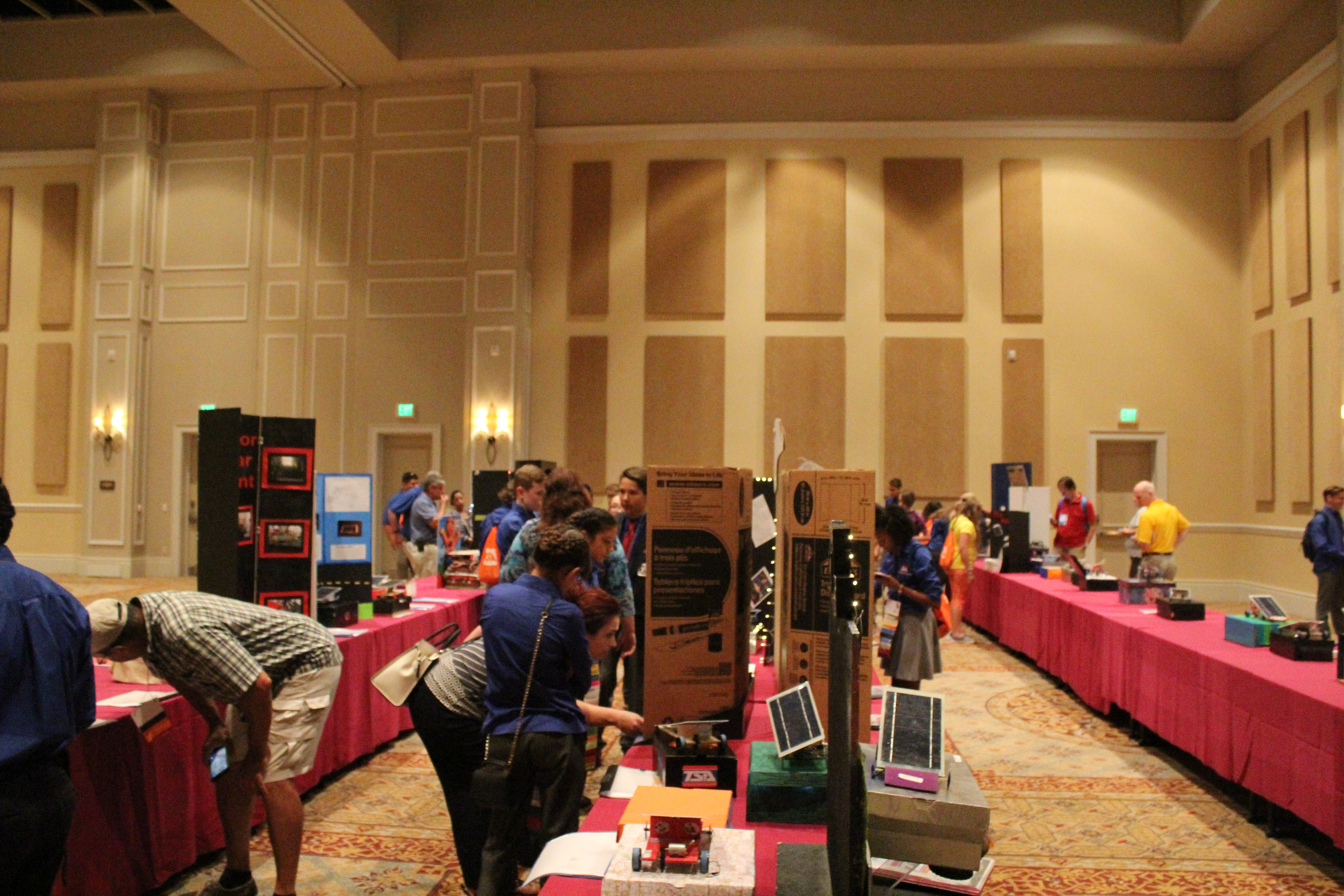 The gallery of submissions TSA event Junior Solar Sprint at the 2017 national conference